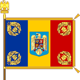 The flag of the Romanian Army (Air force model).